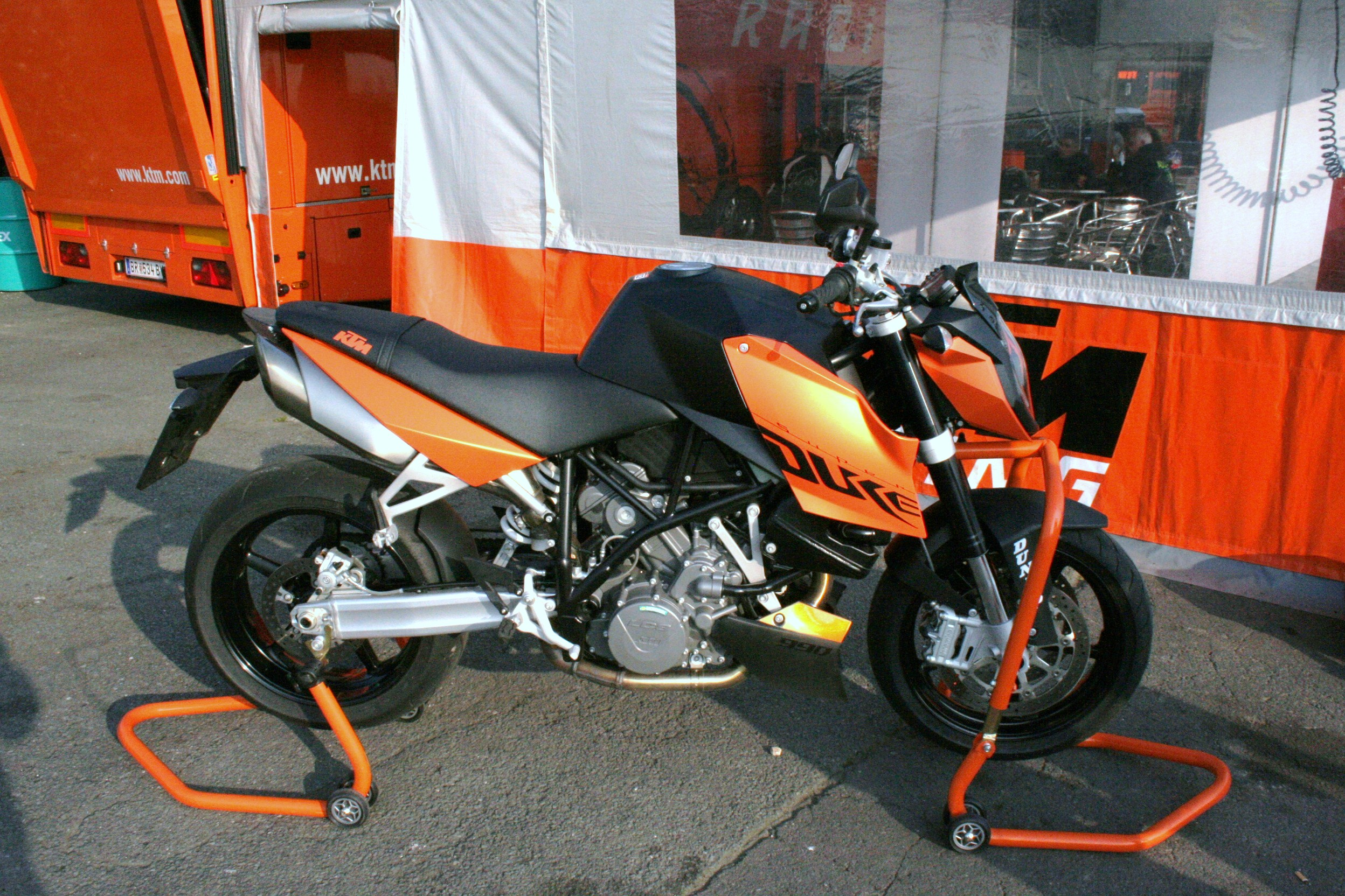 motocycle, KTM 990 Super Duke